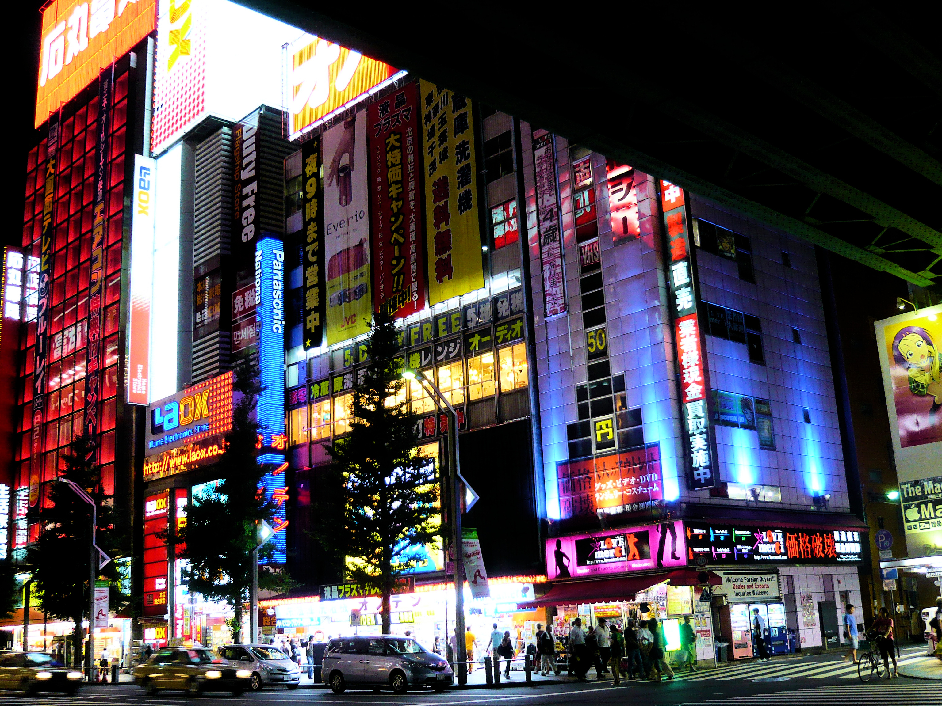 See where this picture was taken. ?